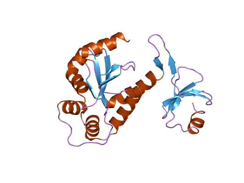 Cartoon representation of the molecular structure of protein registered with 1t3b code.